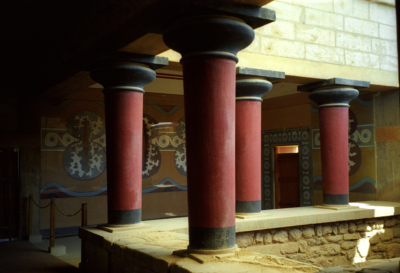 Staircase inside the palace of Knossos